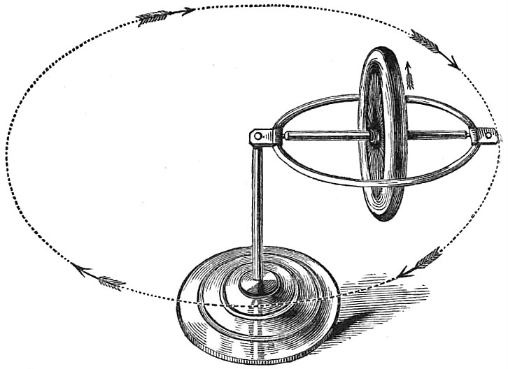 Illustration of gyroscopic action.